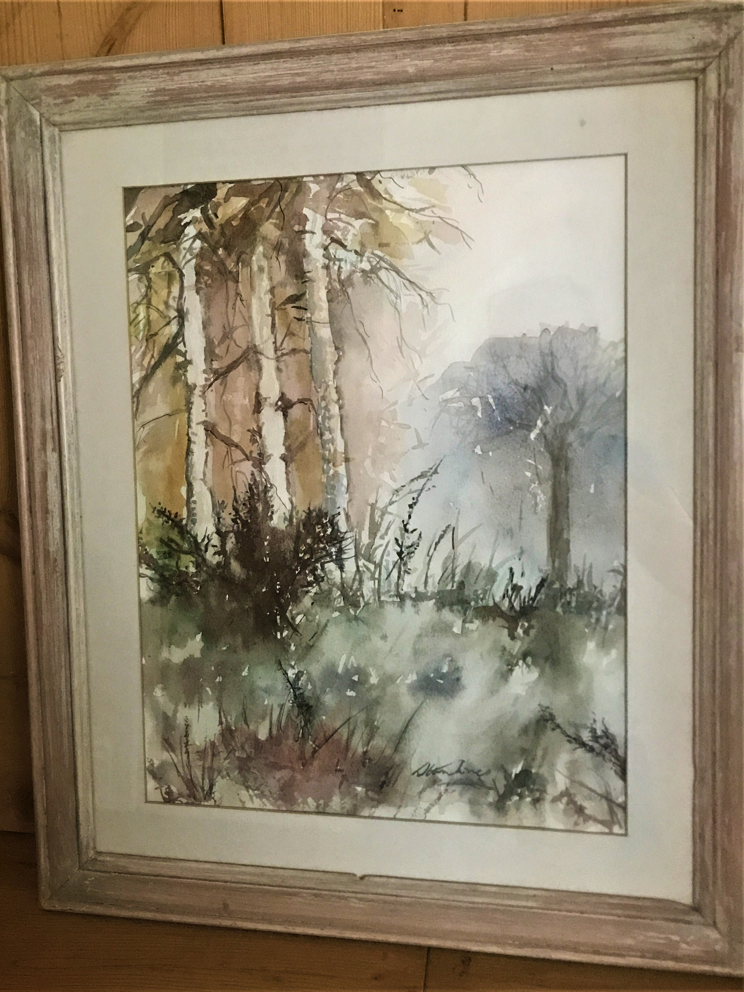 hedgerows